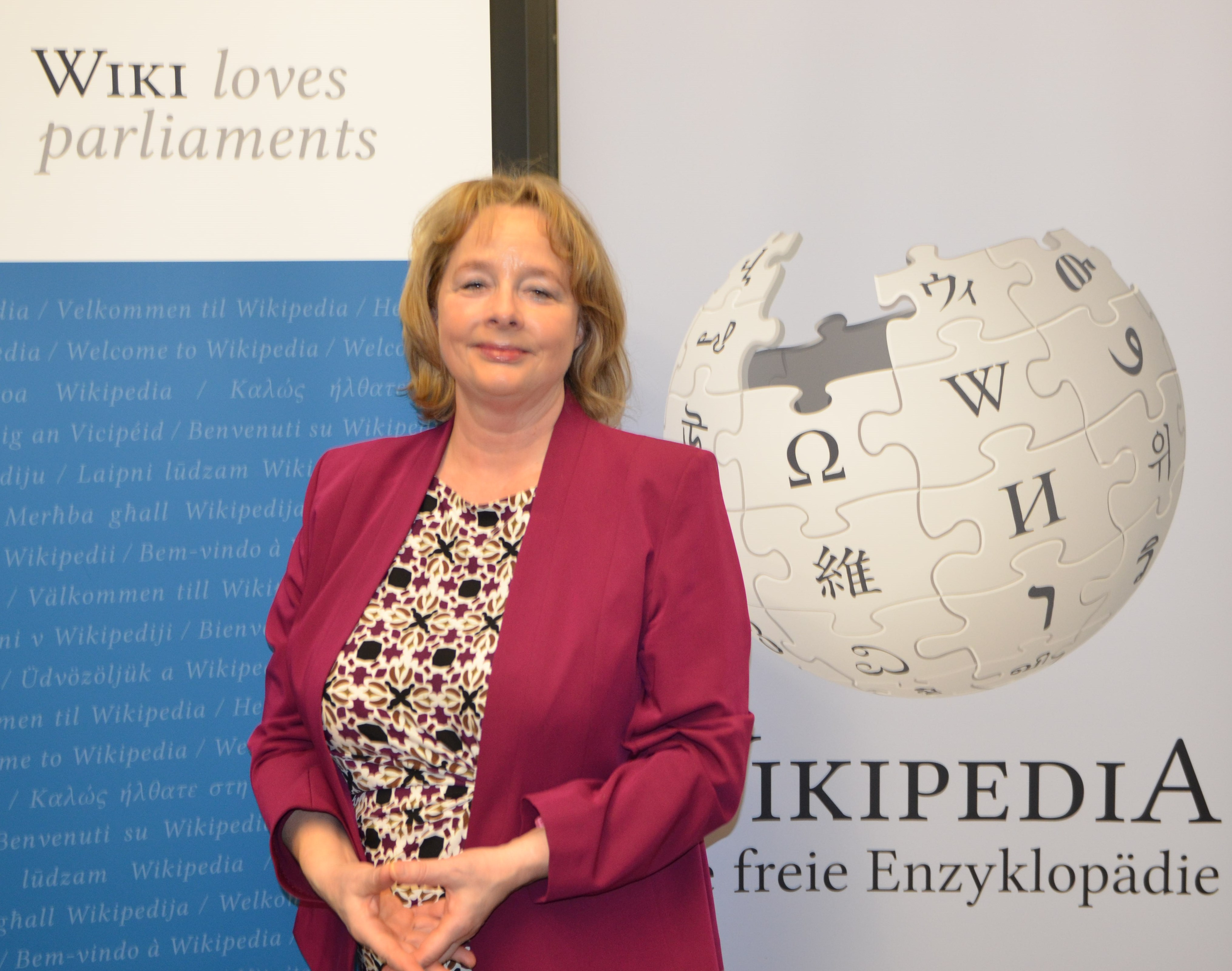 Nessa Childers, Strasbourg, Wikipedians in European Parliament 2014